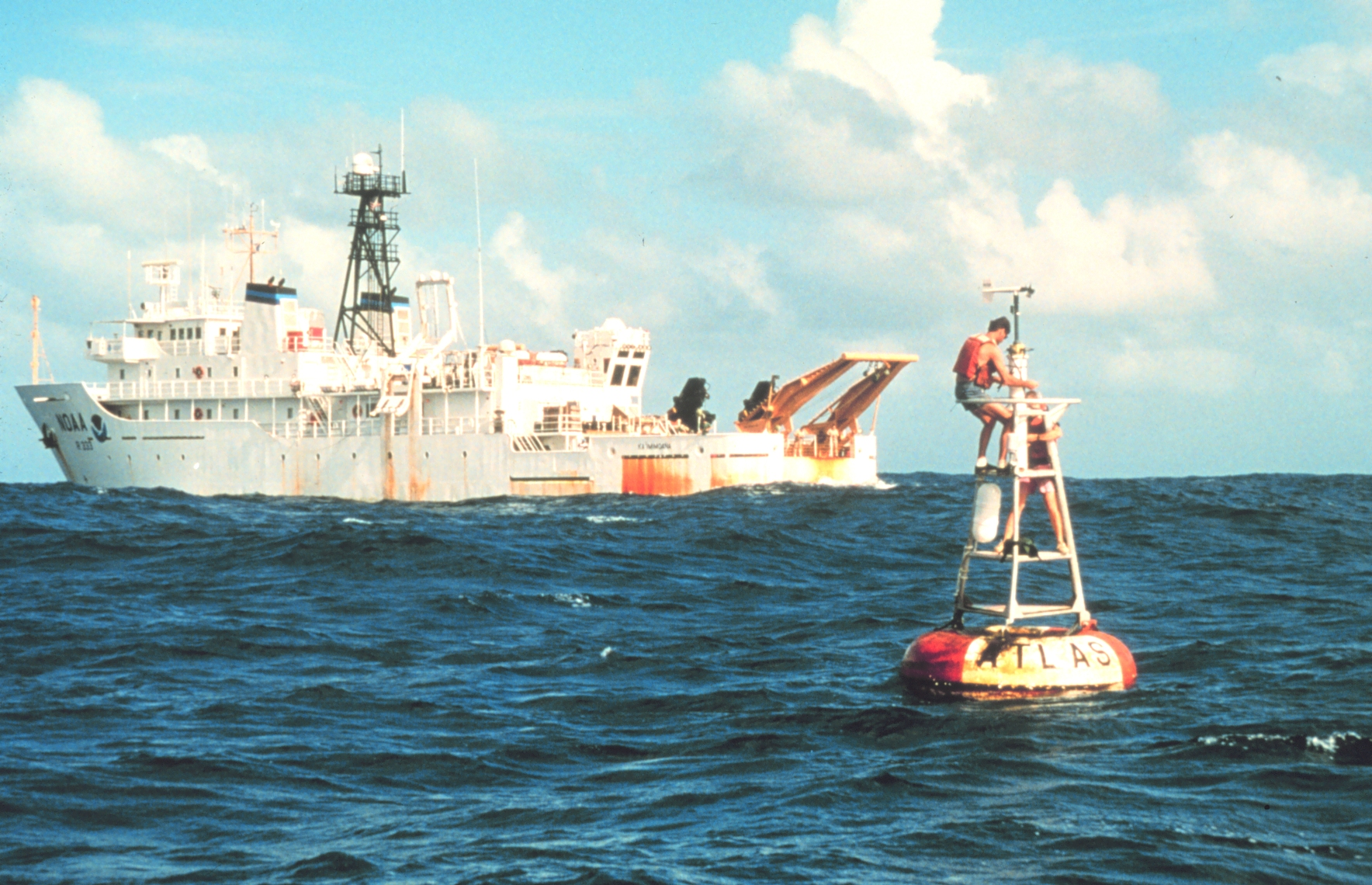 The National Oceanic and Atmospheric Administration oceanographic research ship NOAAS Kaimimoana (R 333) services an Atlas buoy in the equatorial Pacific Ocean. Atlas buoys measure ocean temperature at varying depths and provide warning of upcoming El Niño and La Niña events.